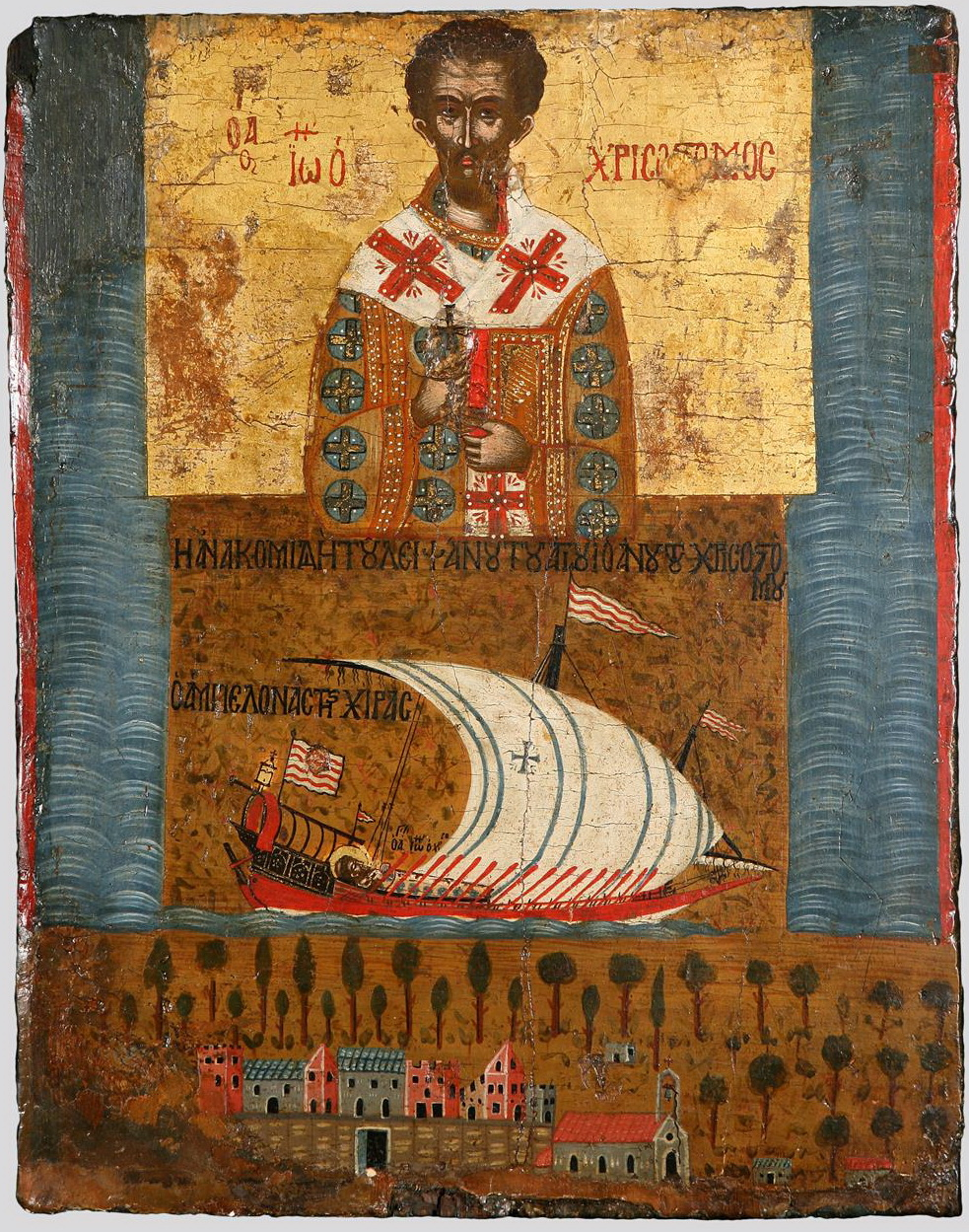 St John Chrysostom, the widow's vineyard, and the transfer of his relic. In the upper zone, John Chrysostom appears in bust. In the middle zone, a small sailing ship carries the holy relic to Constantinople, while in between leaves form the widow's vineyard. In the lower zone the city of Komana is depicted, the Saint's place of exile. The icon narrates the story of the vineyard of widow Kallitropi which was wronged, related to the vineyard's sale to the eparch of Alexandria. In an attempt to be vindicated, Kallitropi appealed to empress Eudocia, to no avail. St John Chrysostom condemned the episode resulting in his exile to Komana of Cappadocia, where he remained until his death. Origin: Kimolos Island Measurement: 41 x 33 cm Exhibit Number: ΒΧΜ 11598